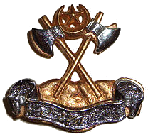 Badge of Sind Regiment, Pakistan Army